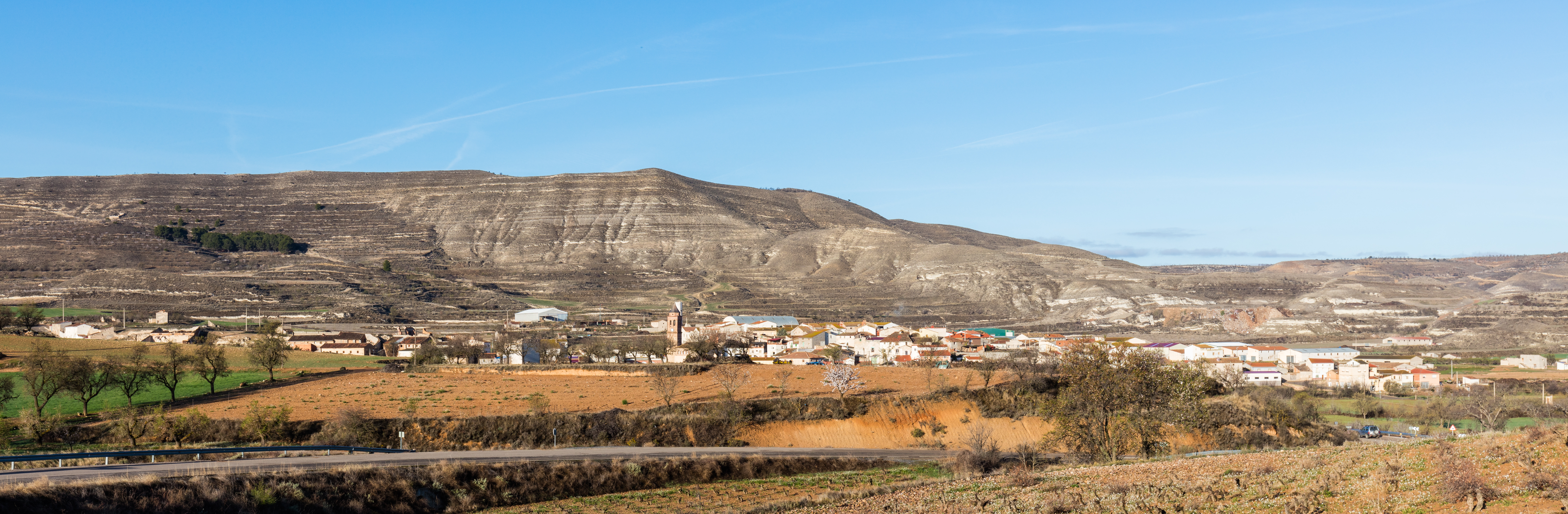 Mara, Zaragoza, Spain